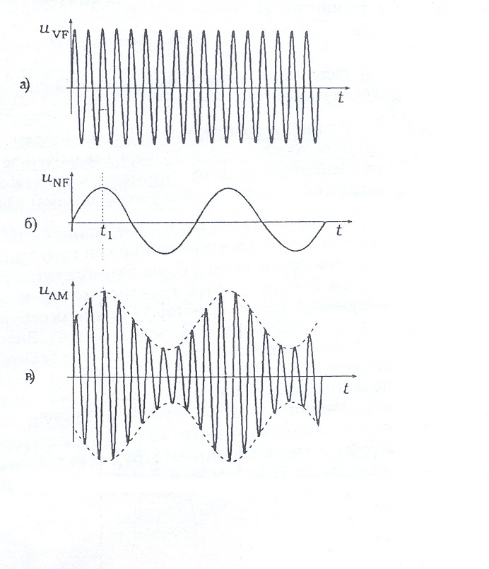 AM Signal generator3